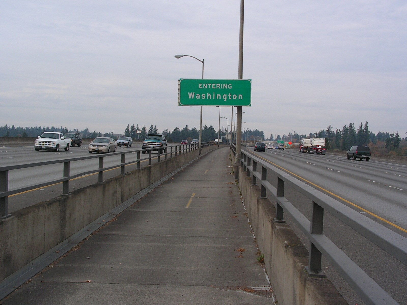 Interstate 205 bridge bike path.